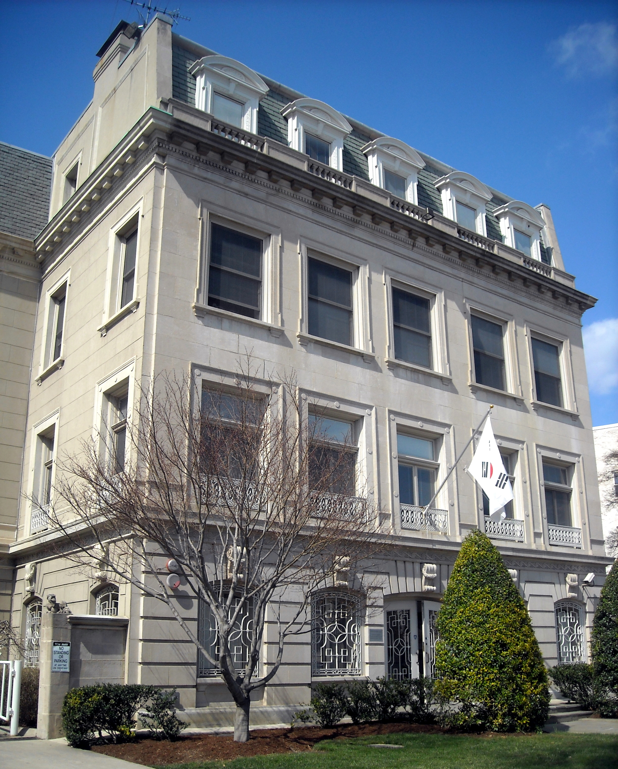 The Embassy of South Korea Consular Section located at 2320 Massachusetts Avenue NW in the Sheridan-Kalorama neighborhood of Washington, D.C. Designed by Frank Russell White in 1918, the Beaux-Arts building originally served as the private residence of physician Arthur D. Stanley (later owned by Frank J. Hogan, founder of Hogan & Hartson). The government of South Korea has owned the property since 1950. The building is a contributing property to the Sheridan-Kalorama Historic District and Massachusetts Avenue Historic District. Additional buildings which comprise the Embassy of South Korea include the KORUS House (2370 Mass Ave), chancery (2450 Mass Ave), and ambassador's residence (4801 Glenbrook Road, NW).